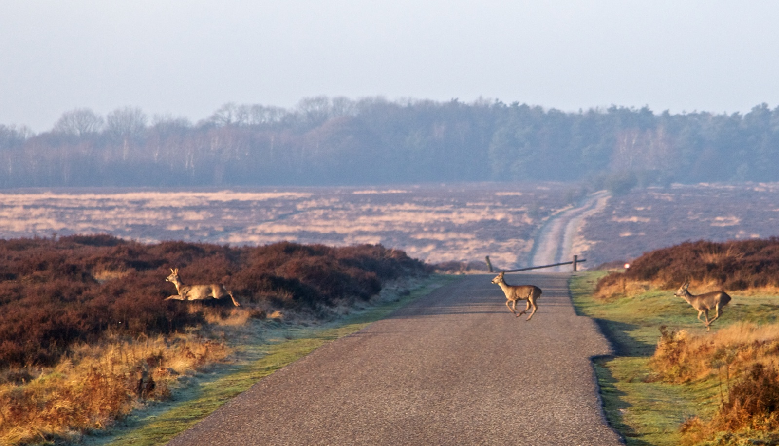 high way De hoge veluwe